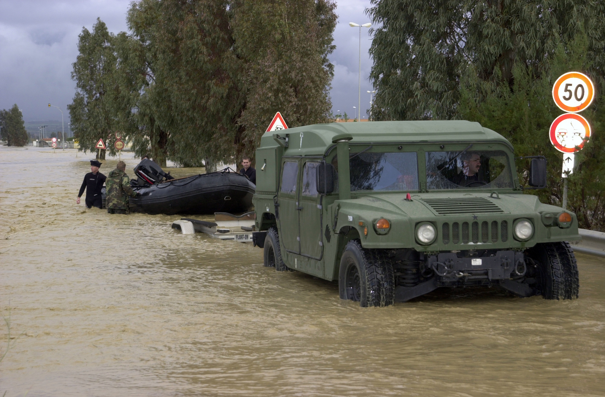 Sigonella, Sicily (Dec. 14, 2005) – U.S. Navy Sailors assigned to Explosive Ordnance Disposal Mobile Unit Eight (EODMU-8), prepare to load their zodiac pontoon boat onto a trailer following an initial exploration of the Marinai housing area on board Naval Air Station (NAS) Sigonella. Continuous heavy rainfall since Dec. 13 resulted in flooding and power outages aboard NAS Sigonella and in surrounding areas, including government housing units in Maranai and Maneo. Six inches to three feet of standing water was reported. NAS Sigonella provides logistical support to Commander 6th Fleet in support of the Global War on Terrorism. U.S. Navy photo by Journalist 3rd Class Michael Lavender (RELEASED)